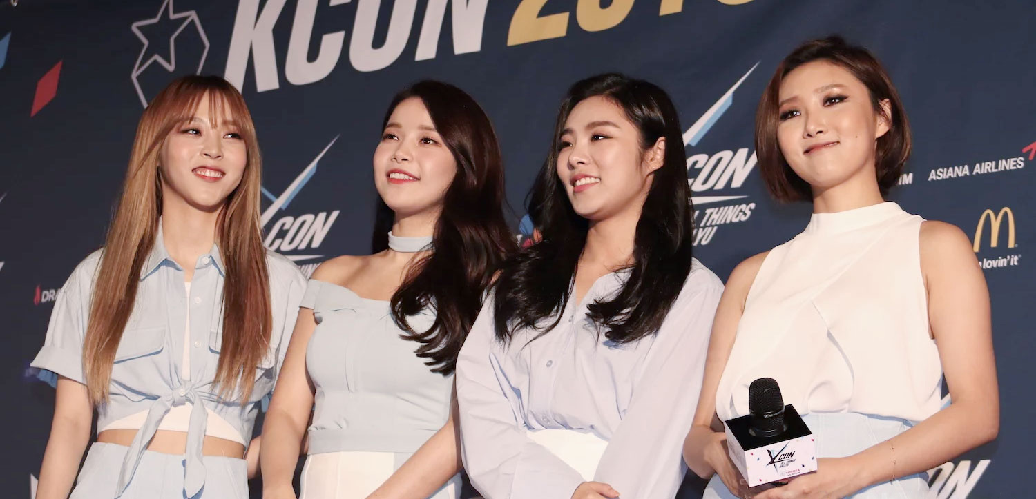 KCON New York 2016